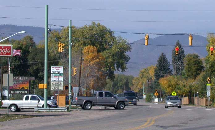 La Porte, looking westward (taken Oct. 16, 2004)